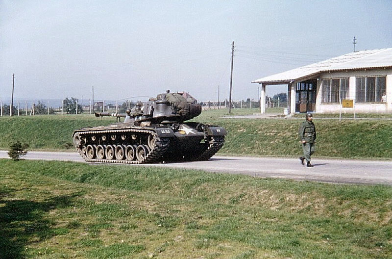 Ray Barracks at Friedberg / Germany (Former Wartturm-Kaserne) An M-481 tank of 32d Tank Bn returning from the field (Battalion Mess Hall on the Right) - 12 AUG 1956